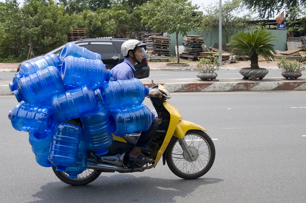 Art of Transportation